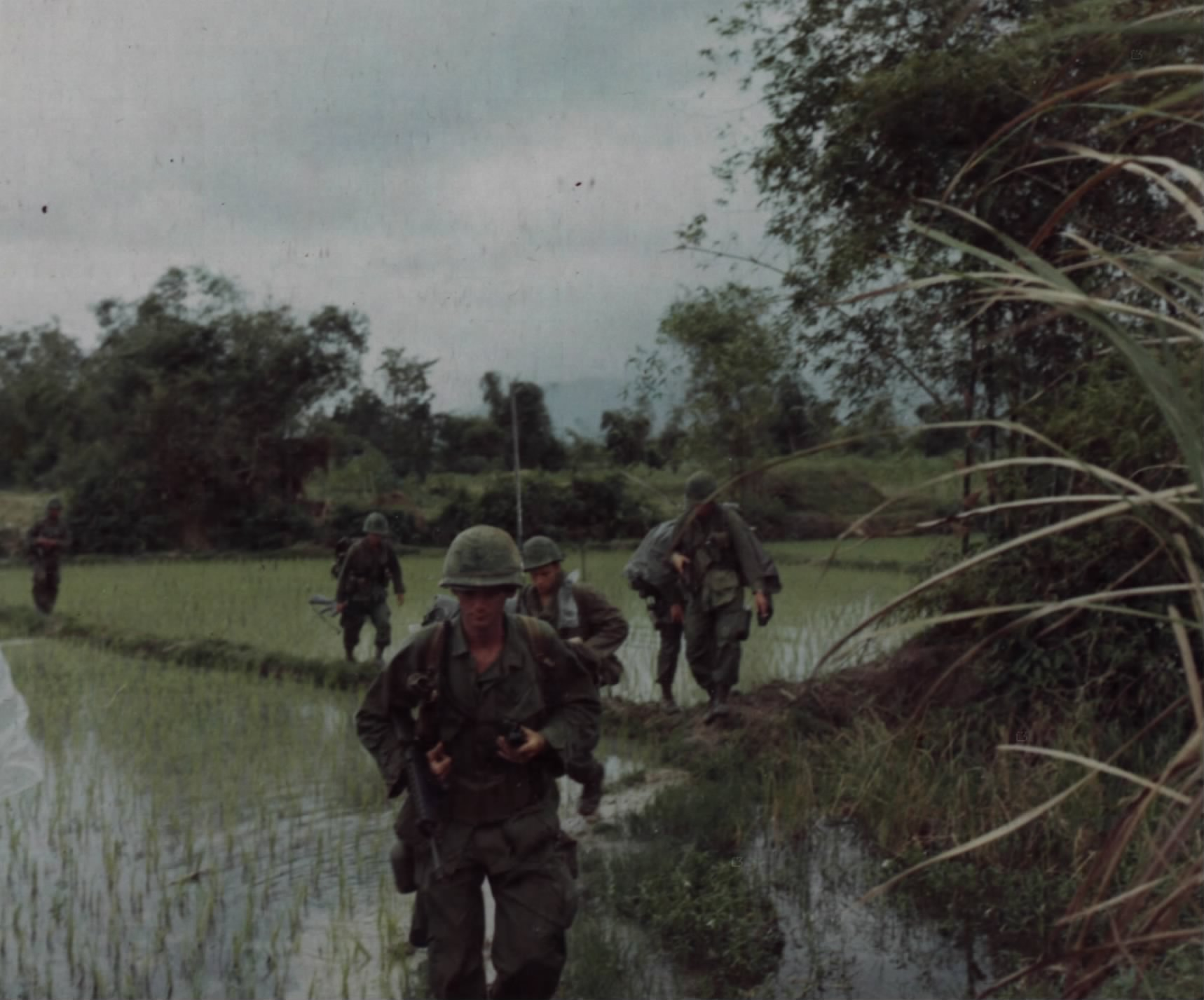 OPERATION WALLOWA. Members of Company "A", 1st Battalion, 7th Cavalry, 1st Cavalry Division (Airmobile), move across rice paddies as they leave a village during a search and destroy mission conducted in conjunction with the operation in an area located 18 miles southwest of Da Nang.